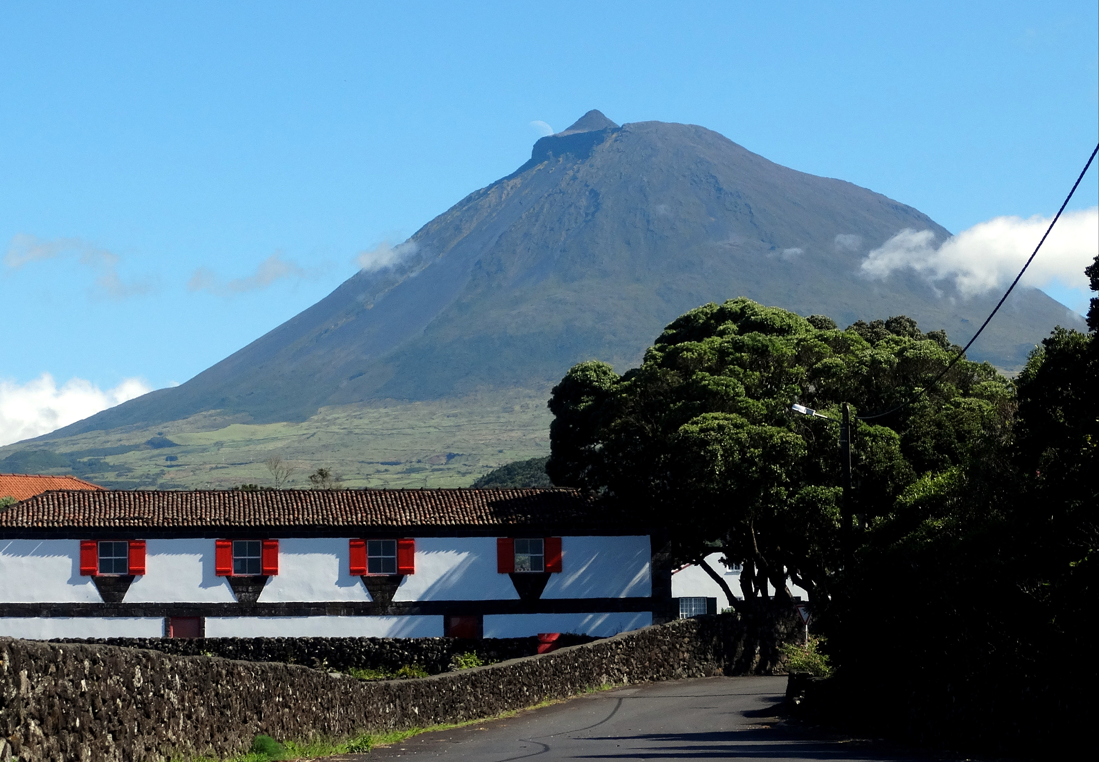 A Mounatin rises